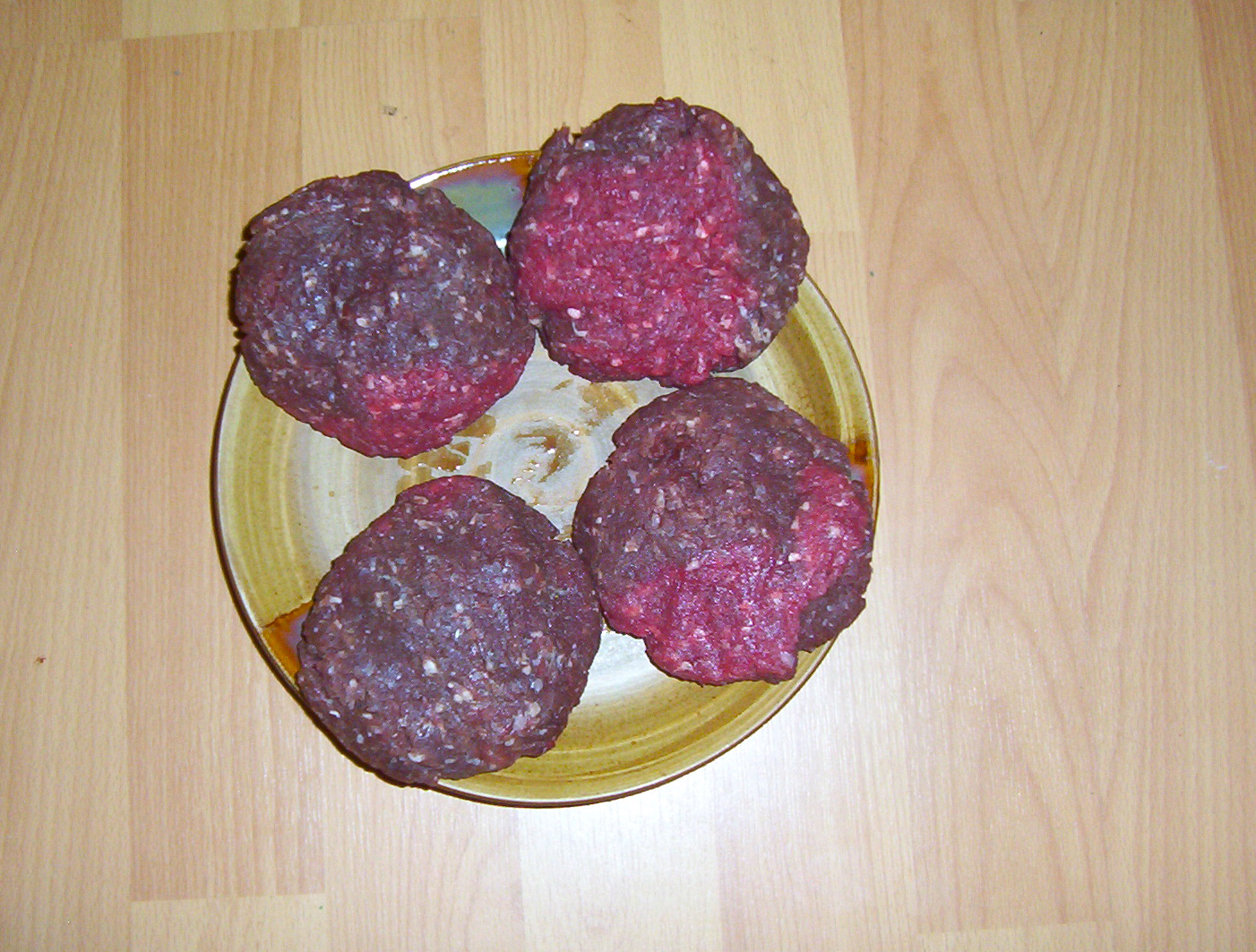 four burger patties made of ground North american Elk